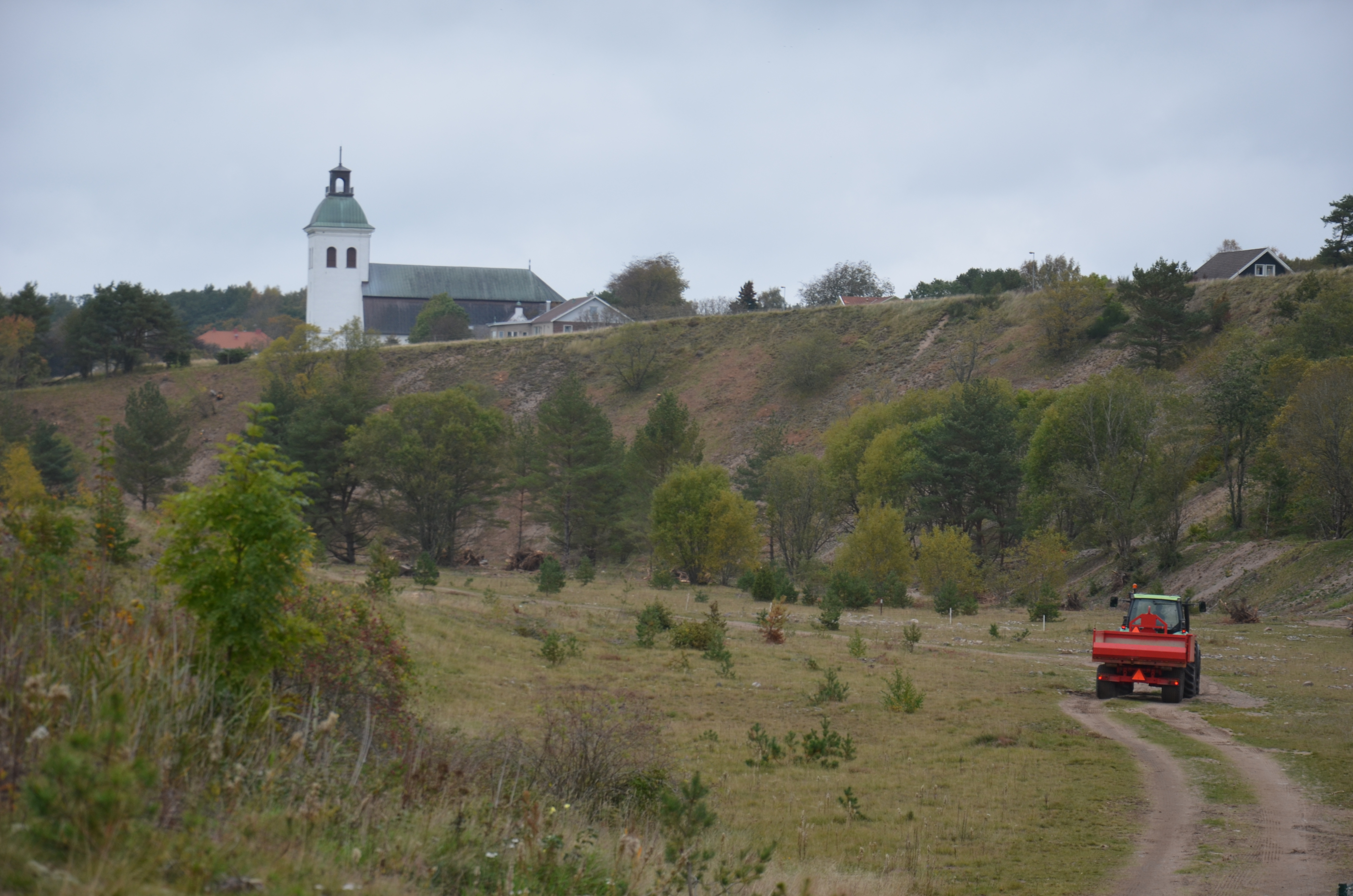 Fjärås bräcka